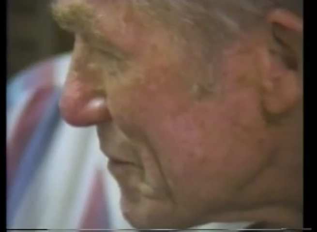 This picture of Rufus Deal is a screen capture taken from a short home video clip which was made during a visit at Rufus's home in Tuscaloosa, Alabama. Rufus was my Uncle and we all loved him a great deal (get it? Deal?). - David McLure